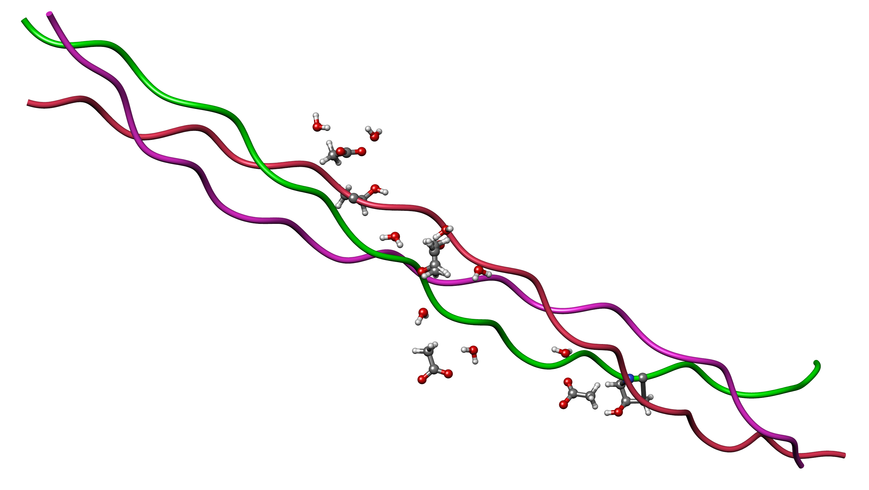 Sequence dependent conformational variations of collagen triple-helical structure. Visualized with UCSF Chimera. PDB: 1BKV.